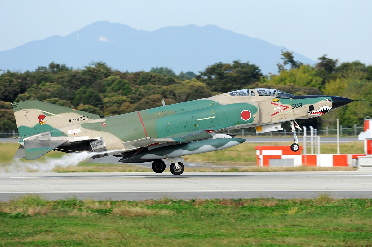 Powerful taking off!!!